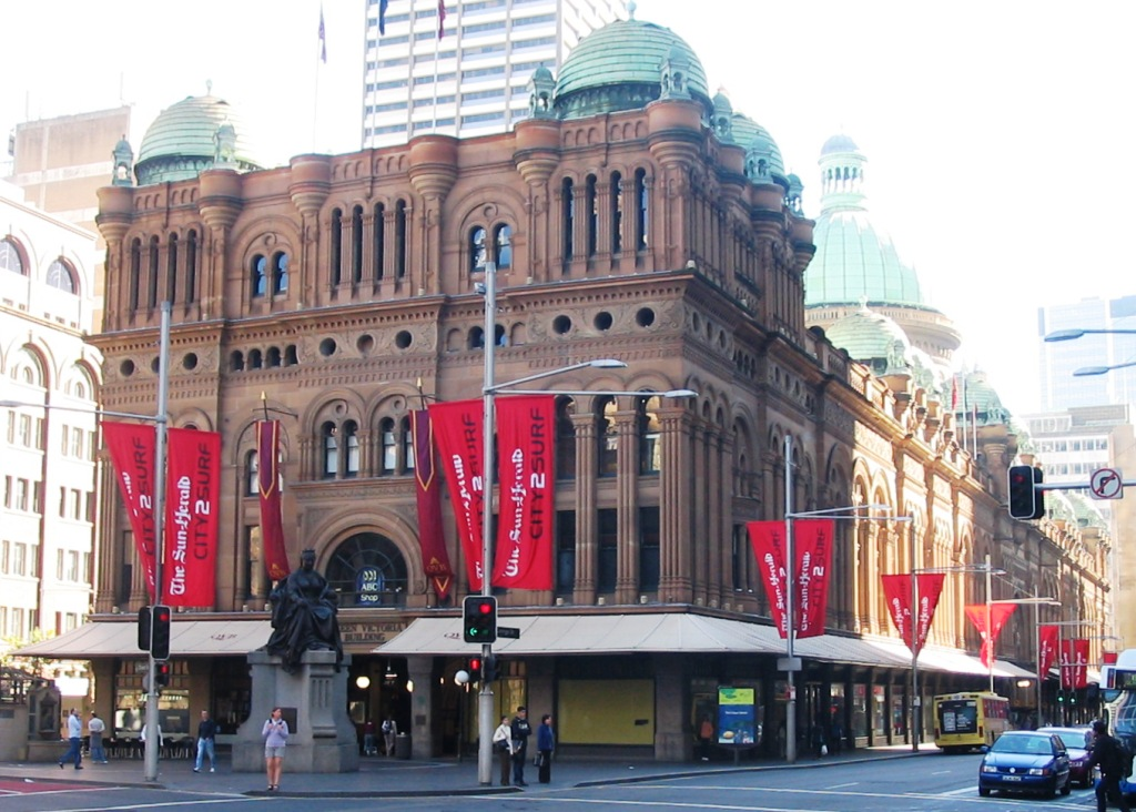 Queen Victoria Building, Sydney, July 2005. Southern end, showing statue of Queen Victoria relocated from Leinster House, Dublin.